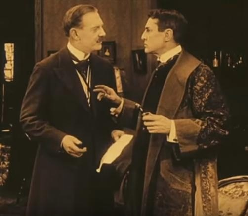 Edward Fielding (left) & William Gillette in Sherlock Holmes - cropped screenshot